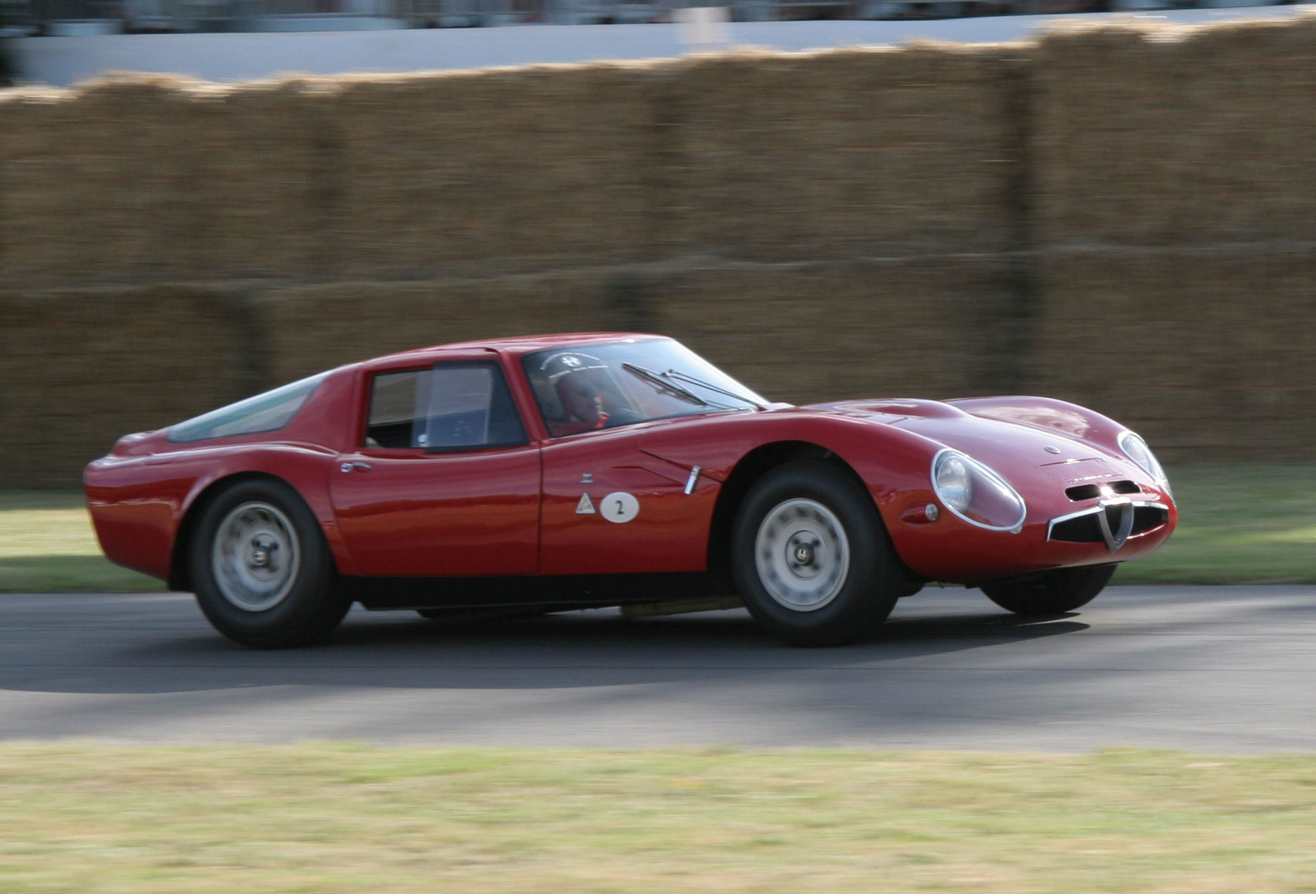 1965 Alfa Romeo TZ2 at the 2006 Goodwood Festival of Speed. This car was provided by Museo Storico, hence it must be s/n 750115.[1]